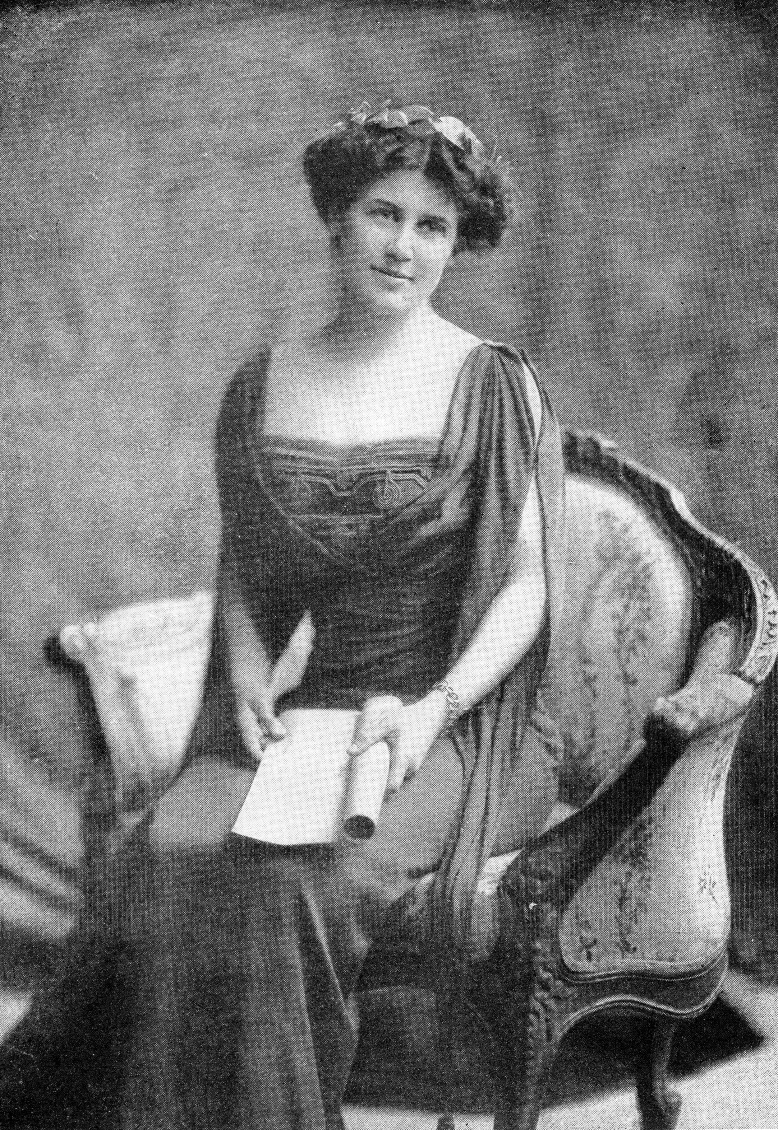 Inez Milholland, American suffragette, full-length portrait, seated, facing slightly right. Halftone reproduction of photo.